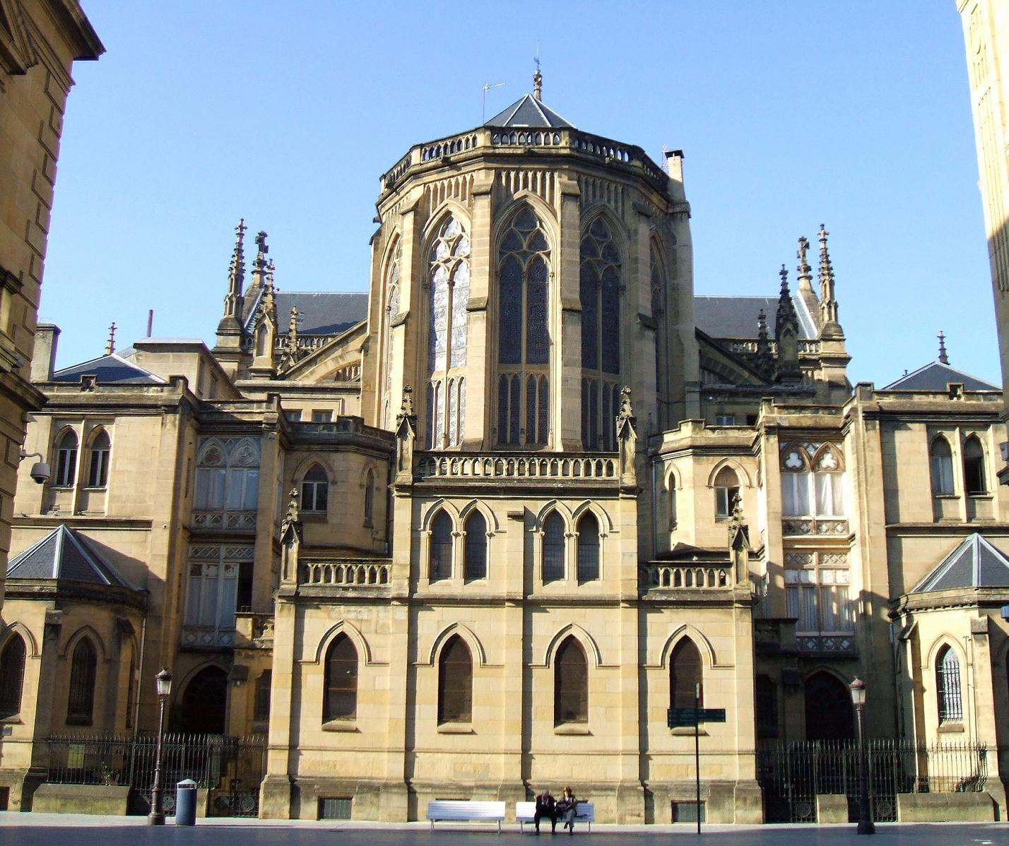 Catedral del Buen Pastor de San Sebastián (Guipúzcoa, País Vasco, España)